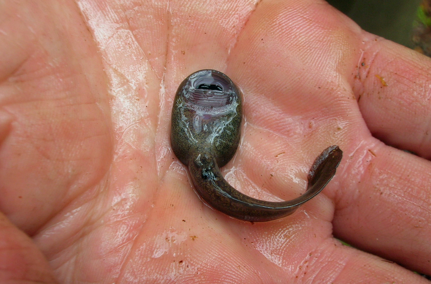 Ascaphus montanus (Rocky Mountain tailed frog) tadpole (upside down) caught in Crooked Creek, Sawtooth National Recreation Area, Idaho